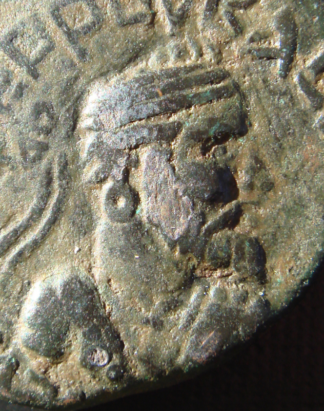 Coin of Gondophares. Personal photograph 2007. Detail from Image:GondopharesFineCoin.jpg.